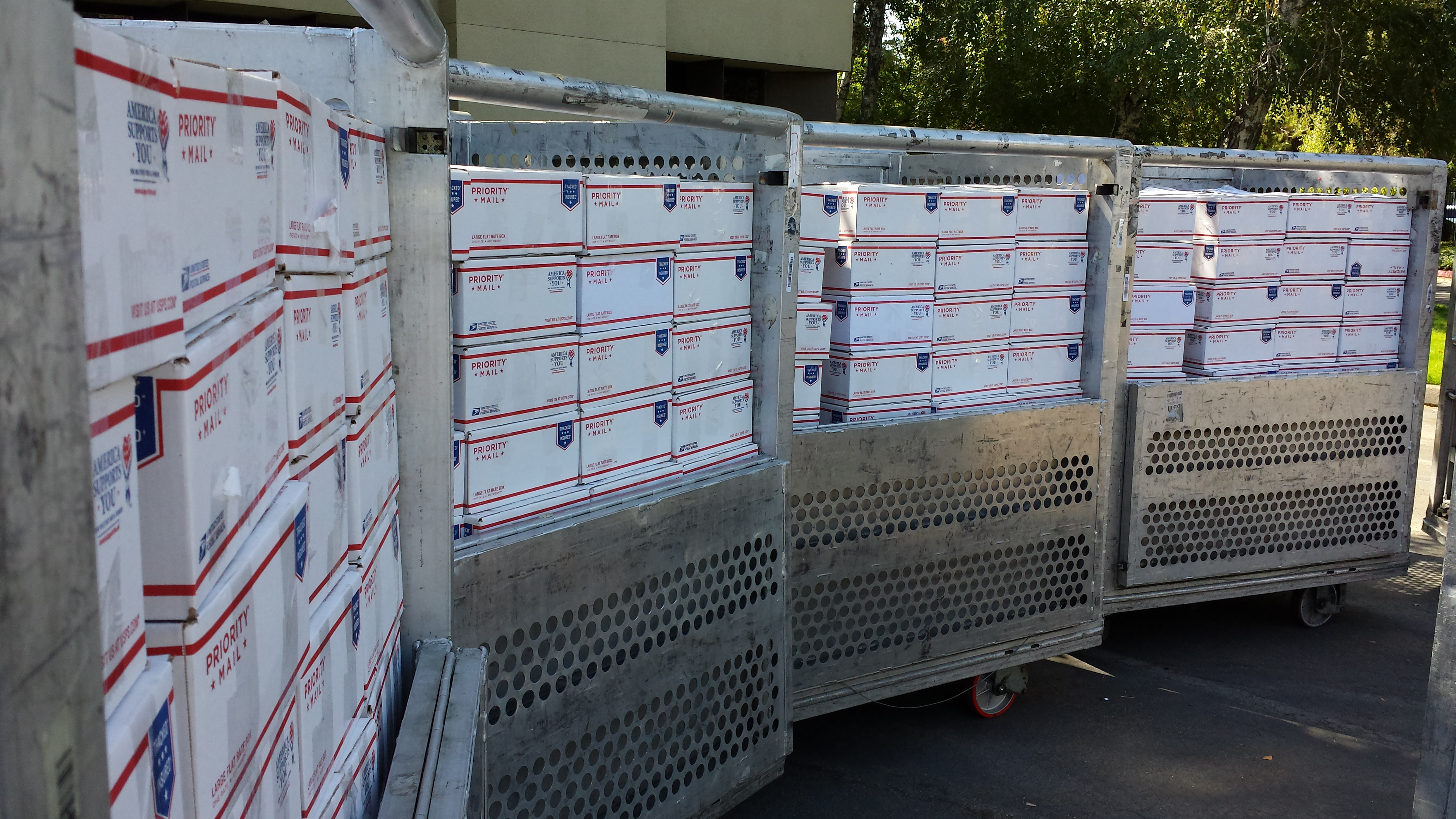 volunteers8